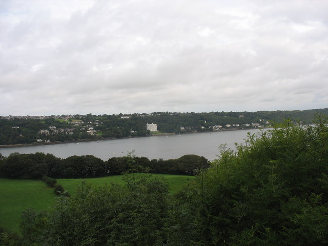 Meysydd Wartski Fields overlooking the Menai Straits These fields were bequeathed to the City of Bangor in memory of Isodore Wartski, a former mayor of Bangor.